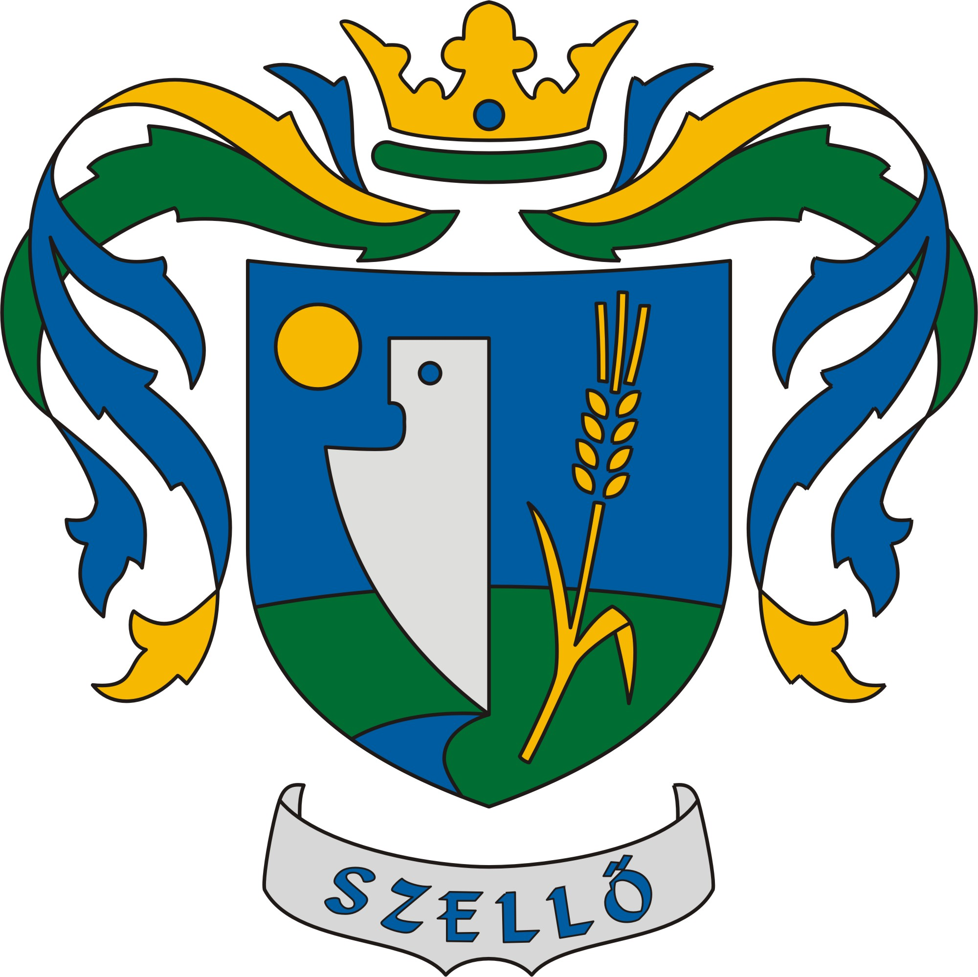 Coat of arms of Szellő, Hungary